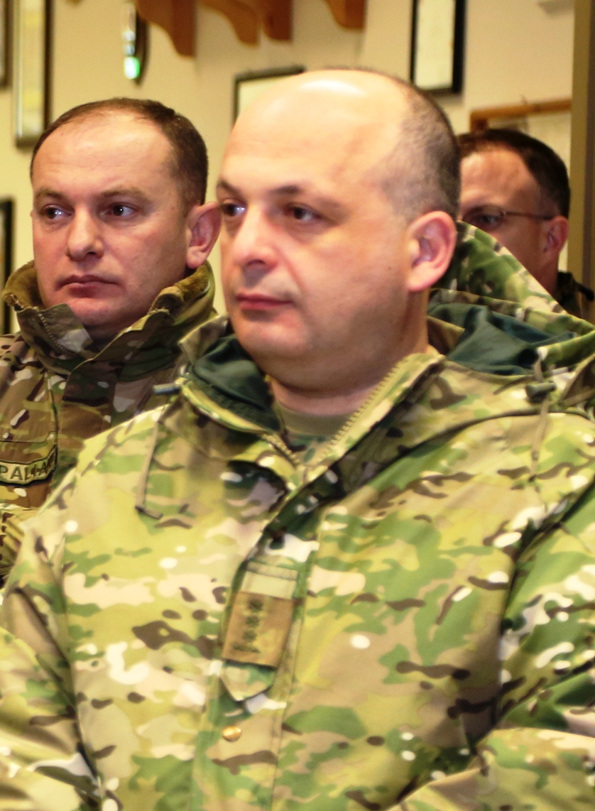 U.S. Army, Navy, Marine and multinational senior leaders, receive a briefing on the inner workings of the Joint Multinational Readiness Center, (JMRC), during a distinguished visit at the JMRC, Hohenfels, Germany Feb. 15, 2013. Col. Irakli Dzneladze, Chief of Defense Georgian Armed Forces visits to observe the Georgian mission rehearsal exercise (MRE). The MRE is designed to train and evaluate the unit's ability to conduct combat and counterinsurgency operations, and to integrate into a combat team in support of International Security Assistance Force operations in Afghanistan.(U.S. Army photo by Spc. Michael Sharp)